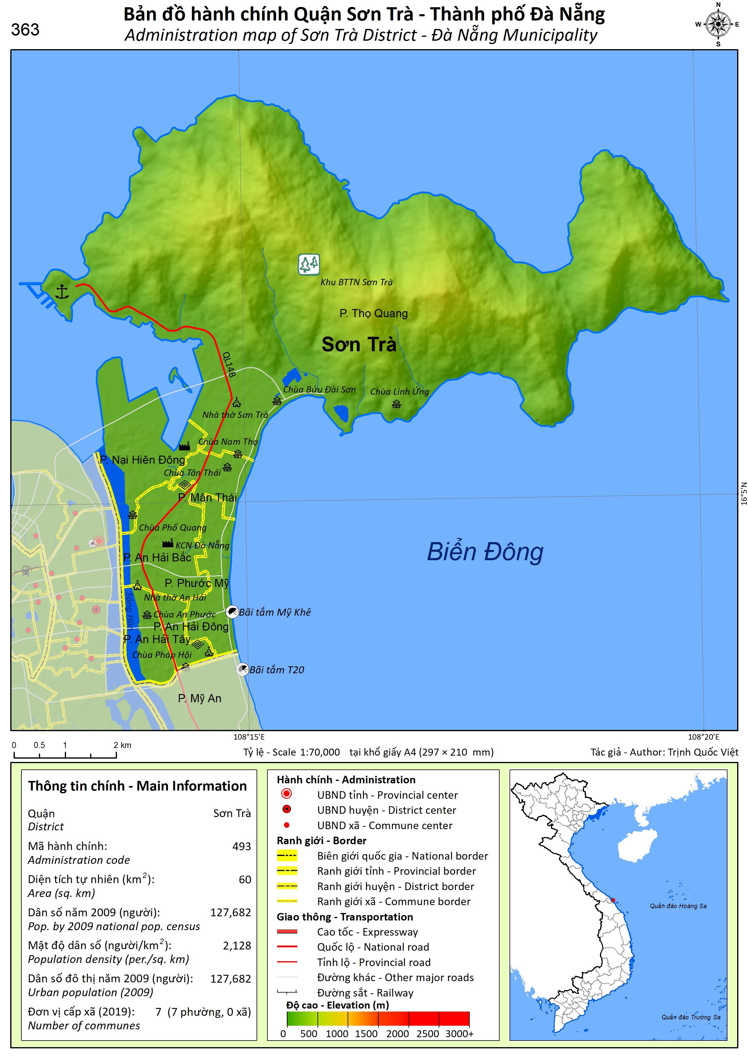 Administration map of Son Tra District, Danang City